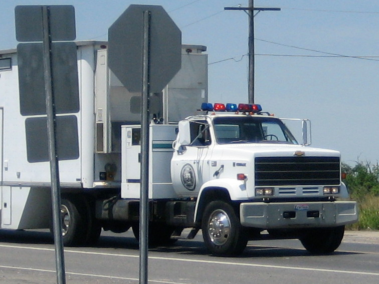 1980–1989 Chevrolet Kodiak.